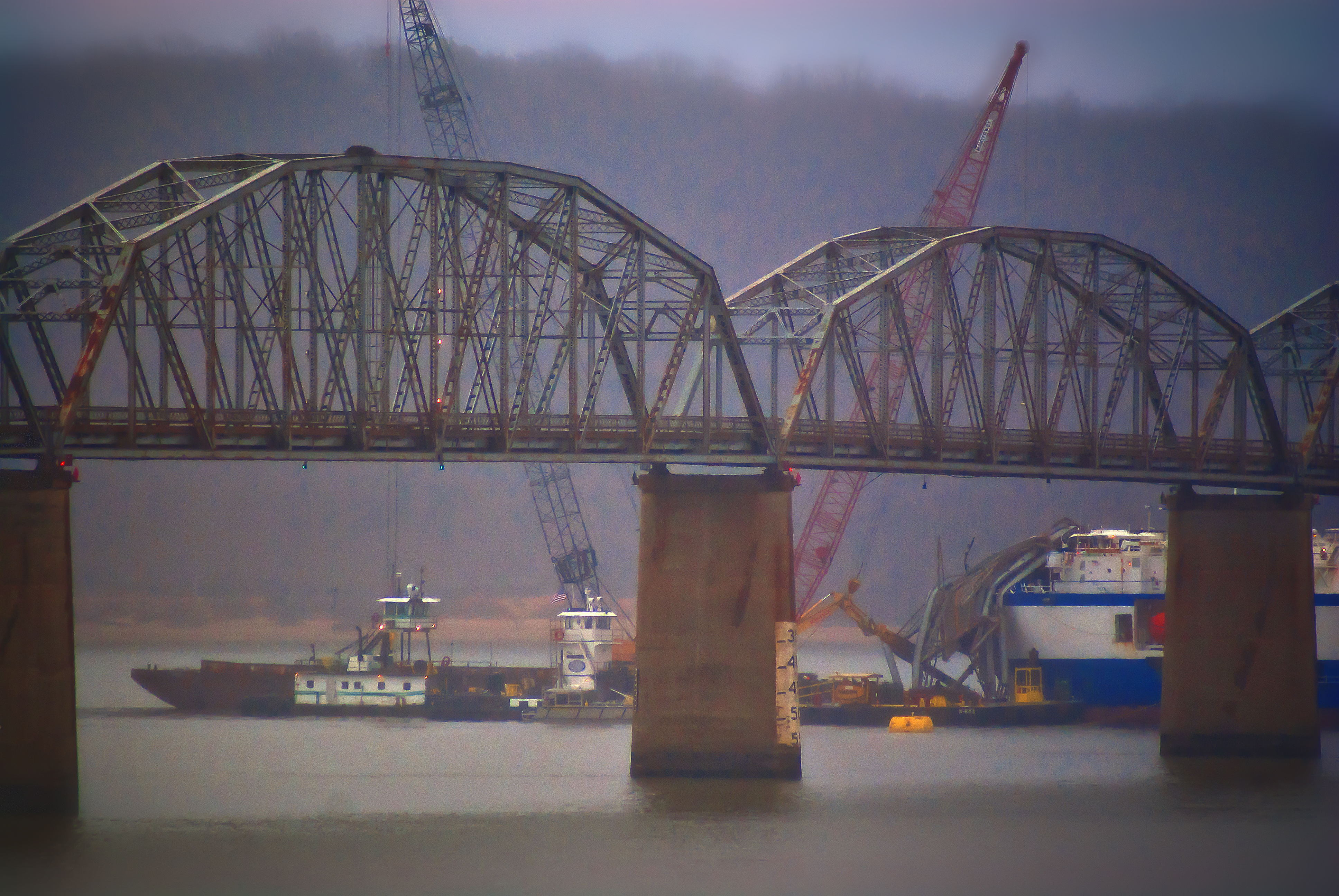 Eggner Fairy Bridge collapse